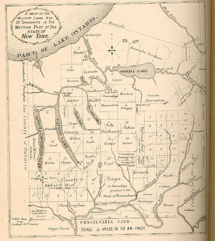 1796 map of the Military lands in New York State URL: scanned from History of Tompkins, Schuyler, Chemung, Tioga Counties 1879